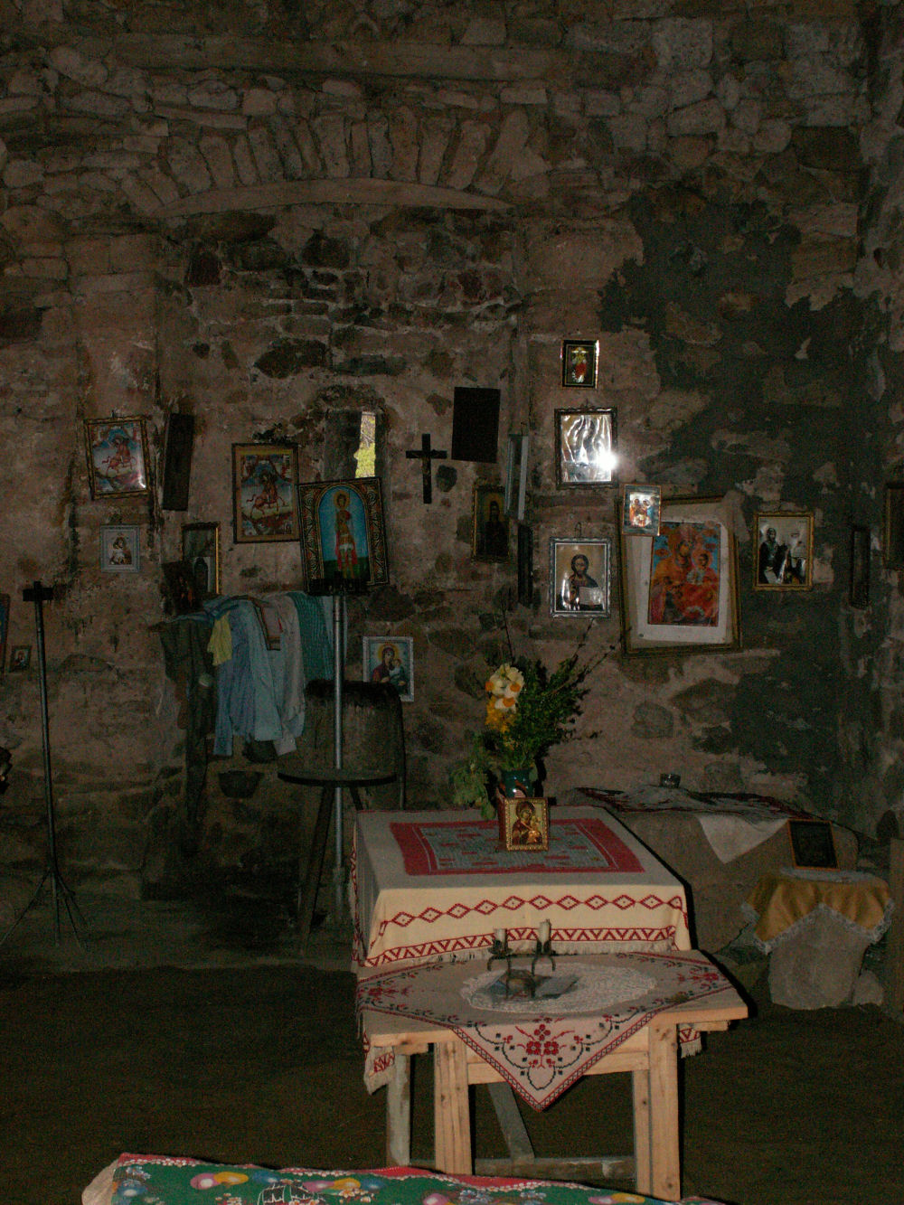 Zabel monastery Saint Dimitar, Bulgaria.